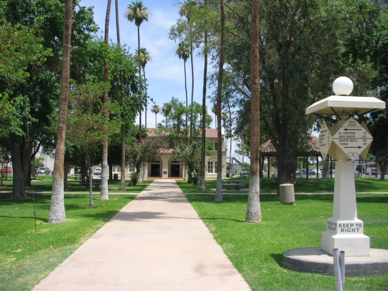 City hall OF Holtville in Holt Park — Imperial County, California.